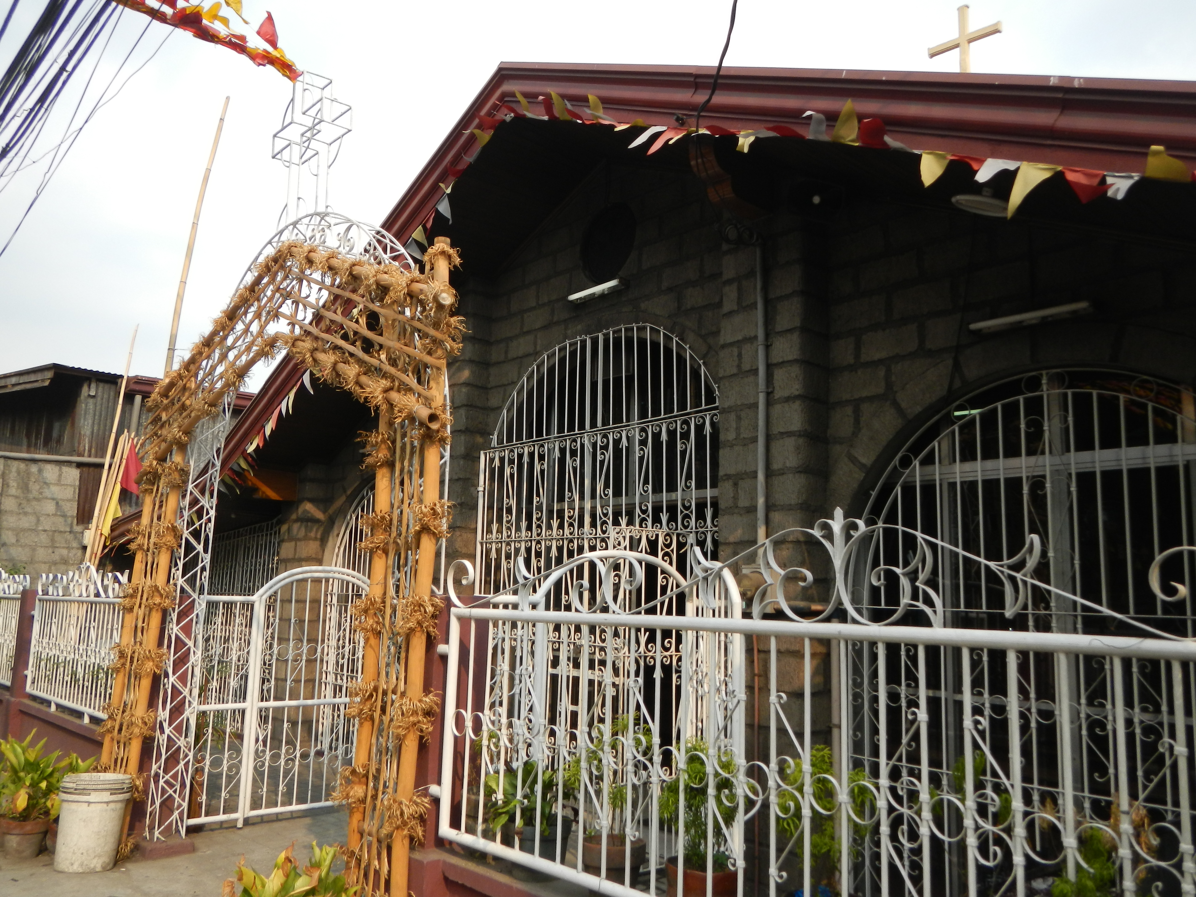 Pulilan, Bulacan - (Barangay Lumbac - the Landmark, Mahal na Señor Sub-Parish Chapel (Lumbac, Pulilan, Bulacan) in Lumbac, Pulilan, Bulacan).